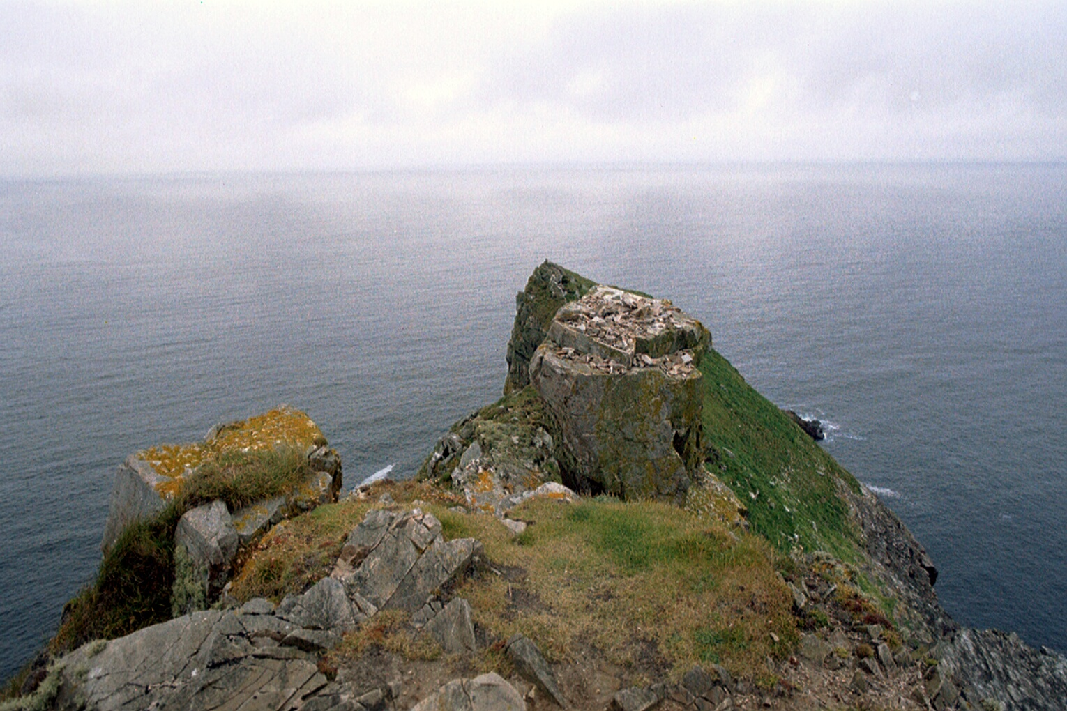 Tory Island, County Donegal, Ireland Wishing stone (Leac na Leannán)